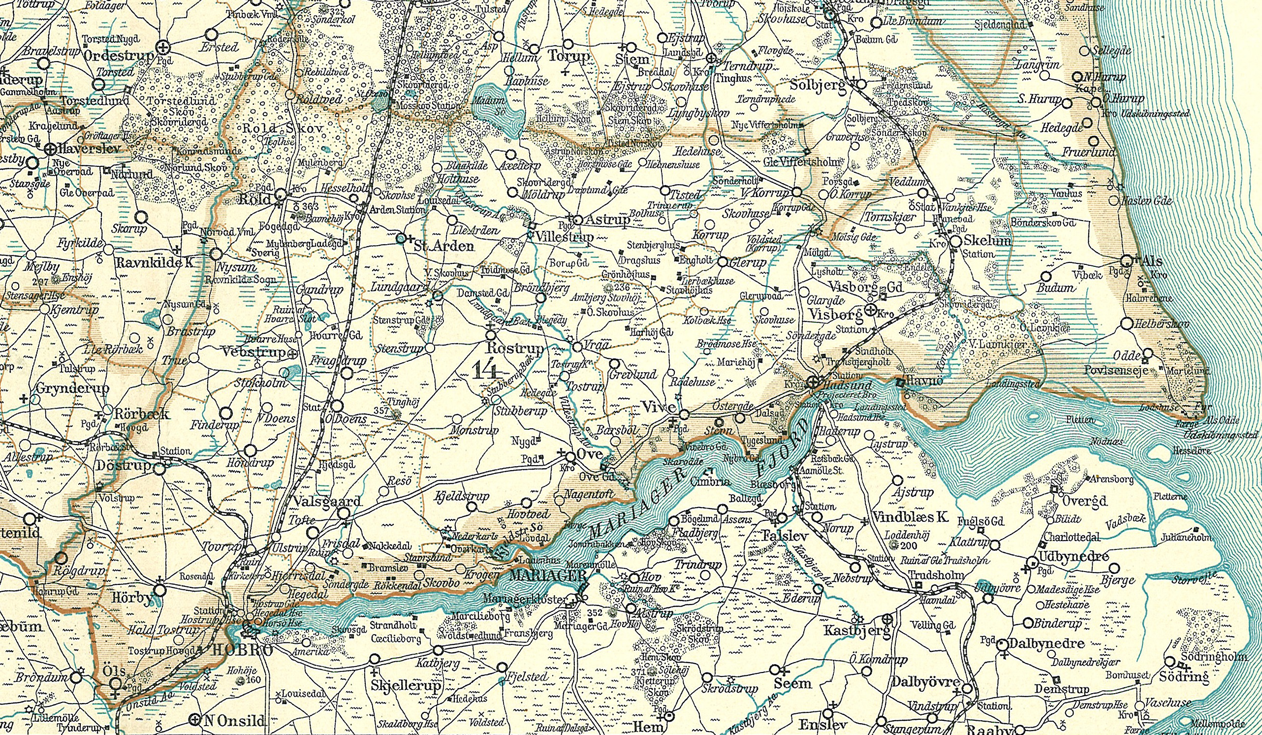 Map of Hindsted Herred in Aalborg County in Denmark